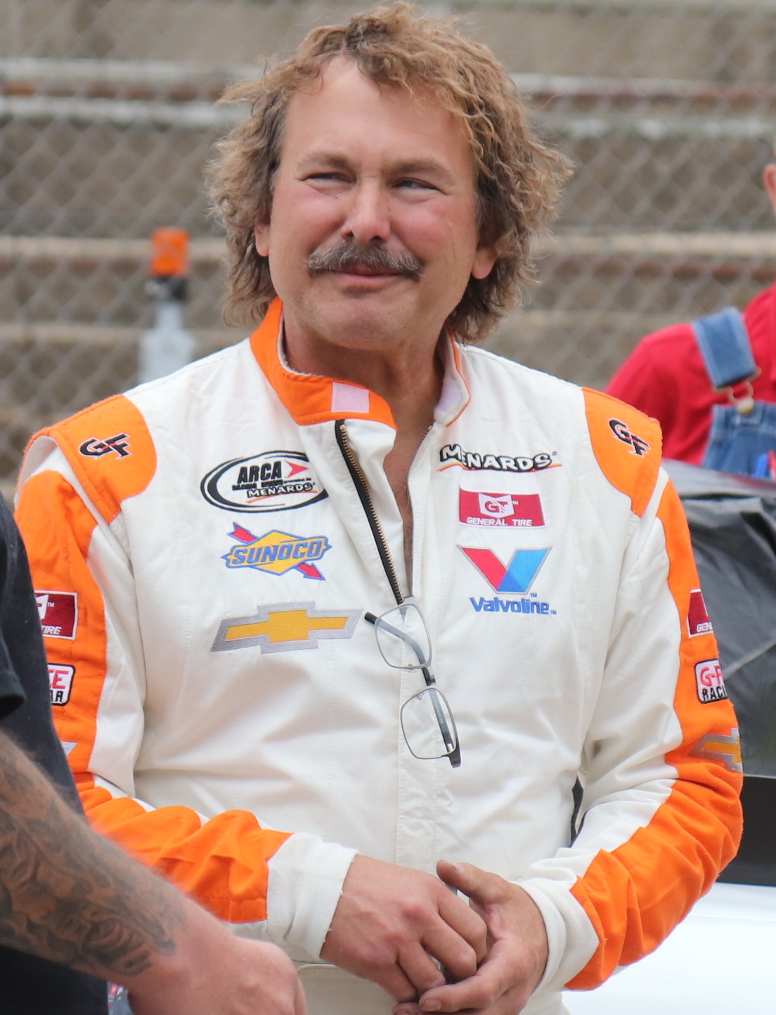 ARCA driver Brad Smith at Madison International Speedway.